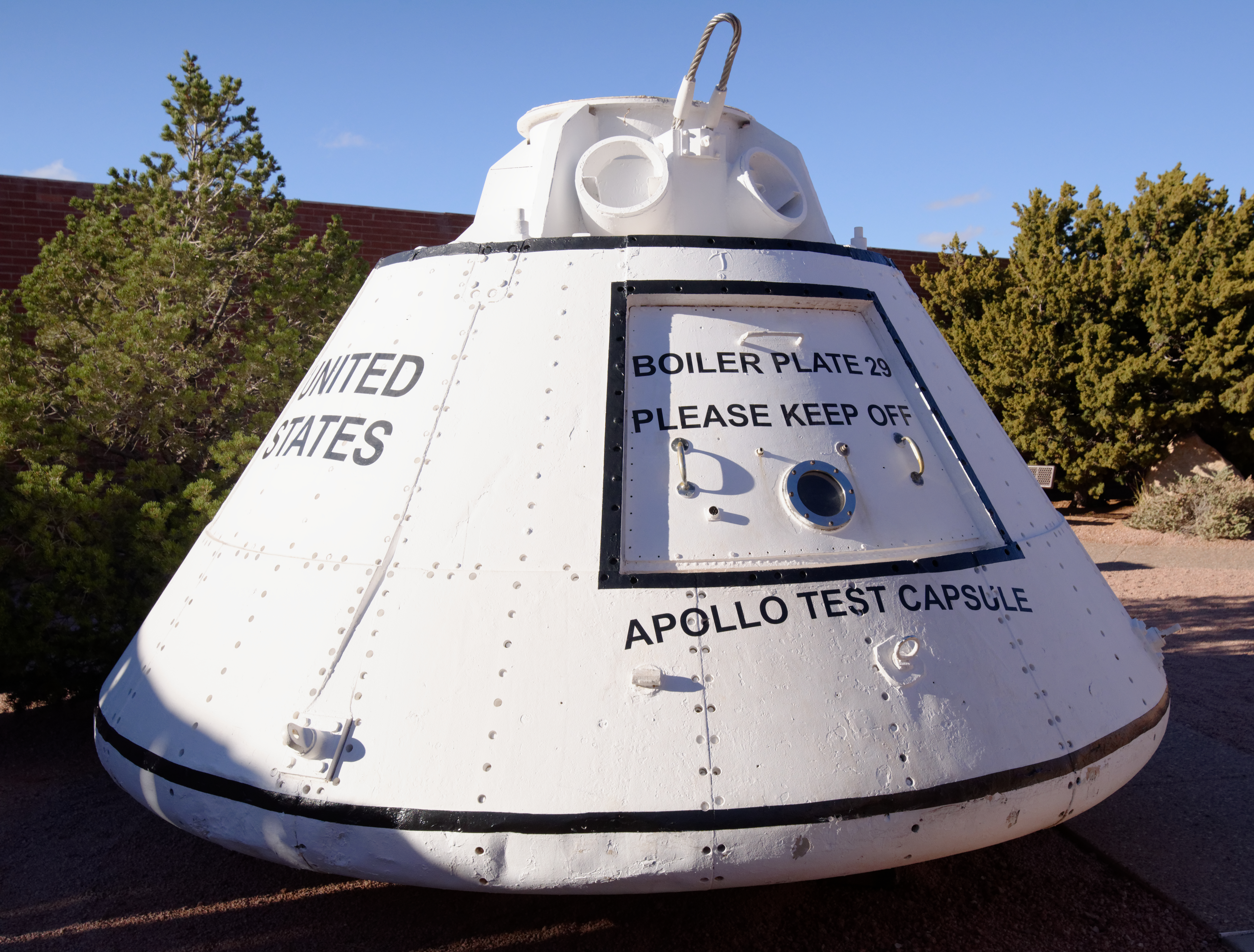 Apollo Boiler Plate 29 at Barringer Meteor Crater, Arizona, US